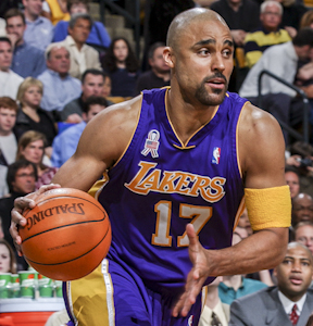 Rick Fox with Los Angeles Lakers